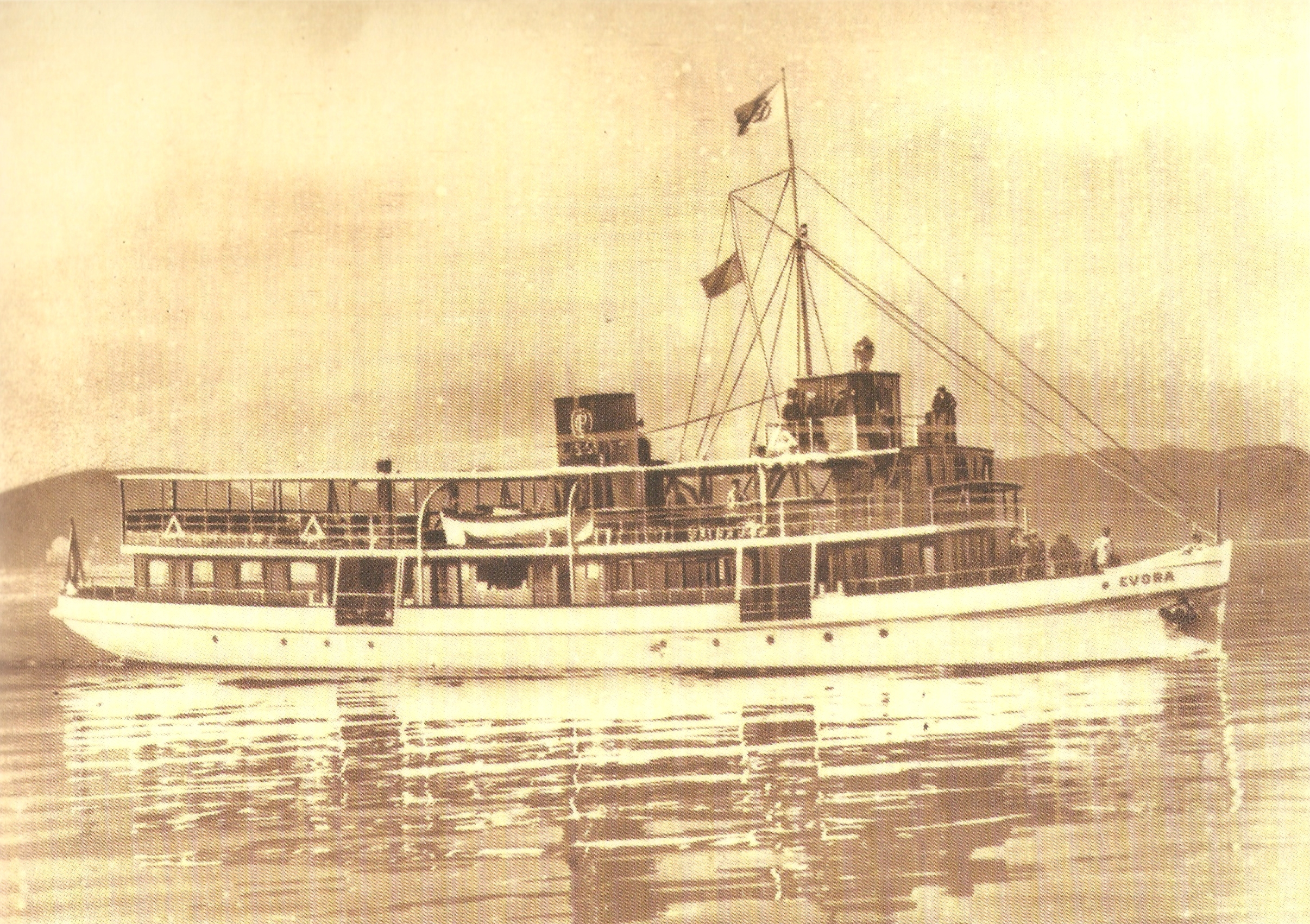 "Évora" ferry, bought by the Portuguese Railways Company in 1931 to transport passengers between the Barreiro railway station and the Terreiro do Paço fluvial station, in Lisbon.